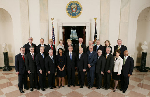 George W. Bush stands with members of his Cabinet in Cross Hall at the White House.